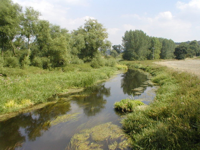 River Sow: looking downstream